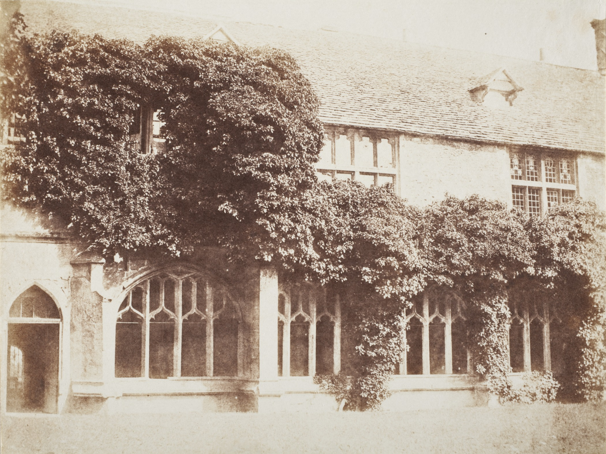 England, circa 1844 Book: The Pencil of Nature Plate: Plate XVI Photographs Salted-paper print (calotype) Gift of Sue and Albert Dorskind (AC1993.204.6) Photography